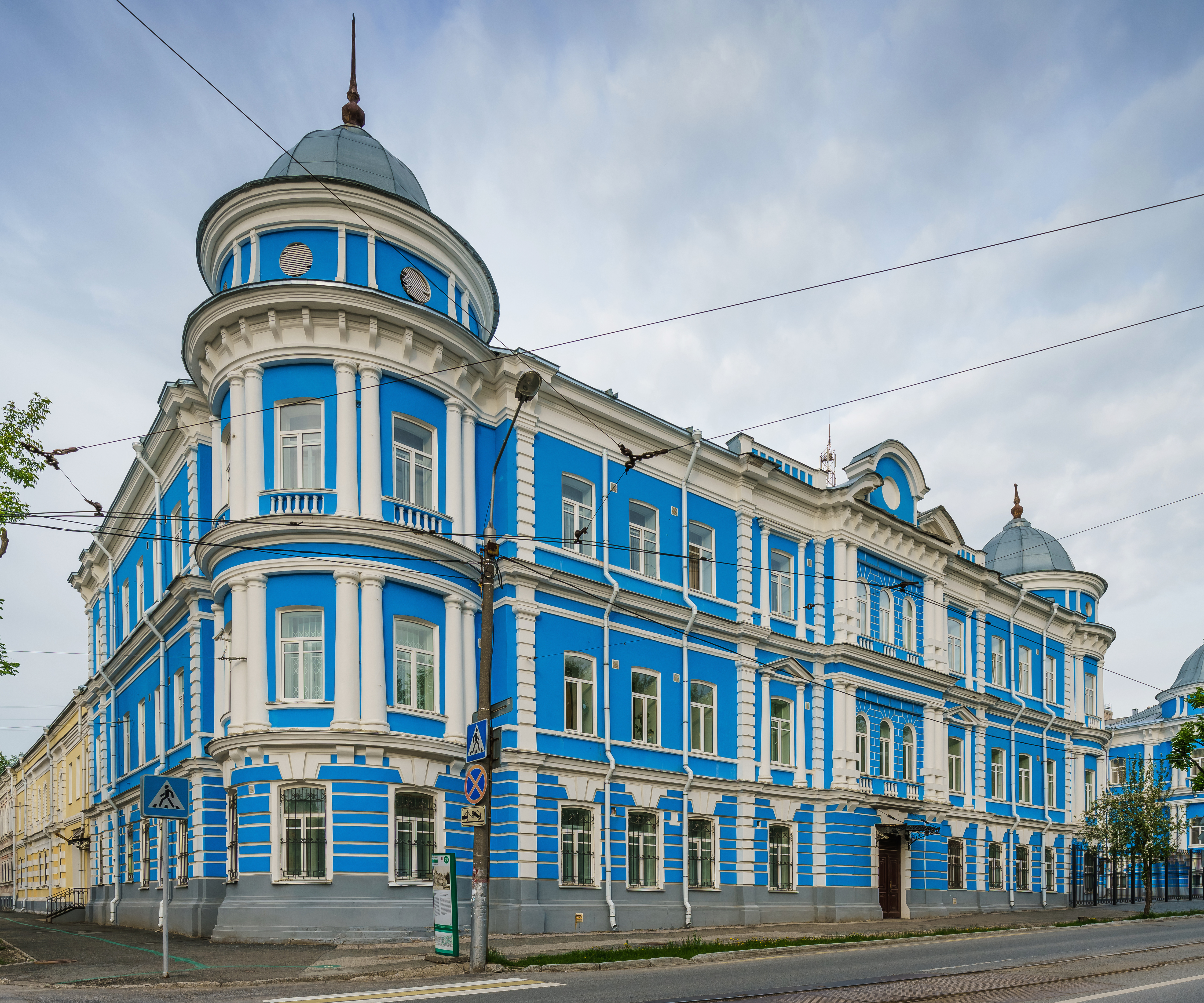 Building at 25 Oktyabrya Street 12 in Perm, Russia